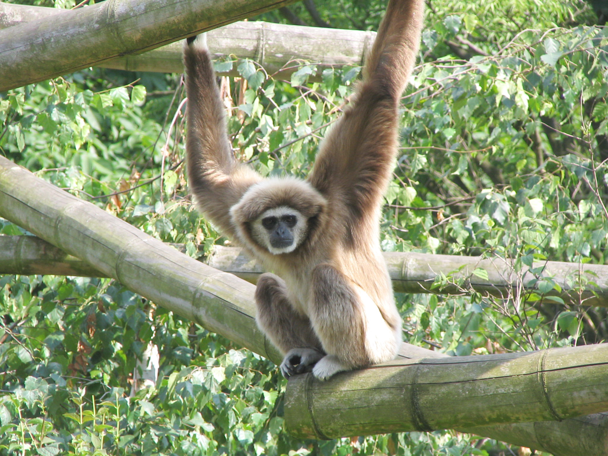 Lar gibbon at the "Tierpark Berlin"